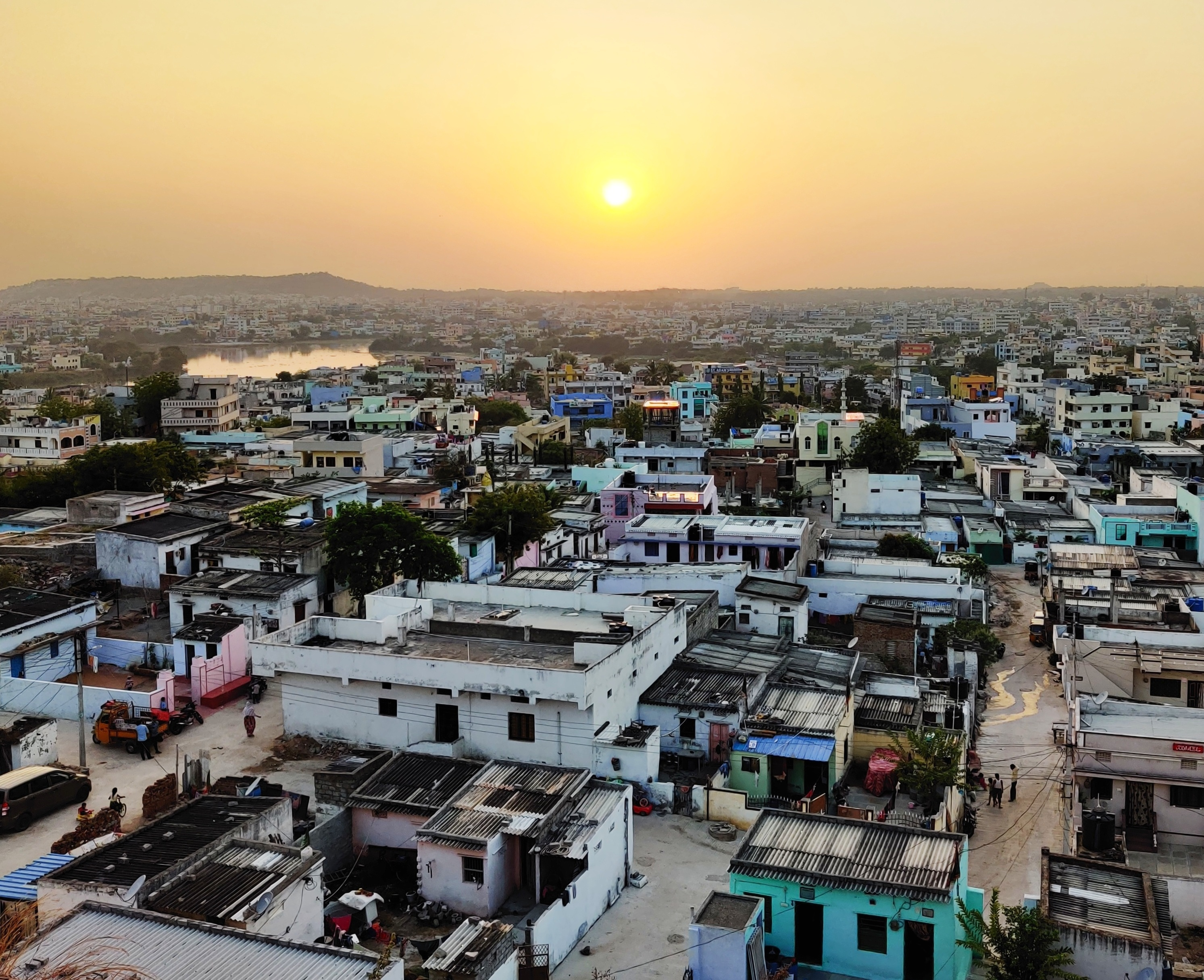 hill21